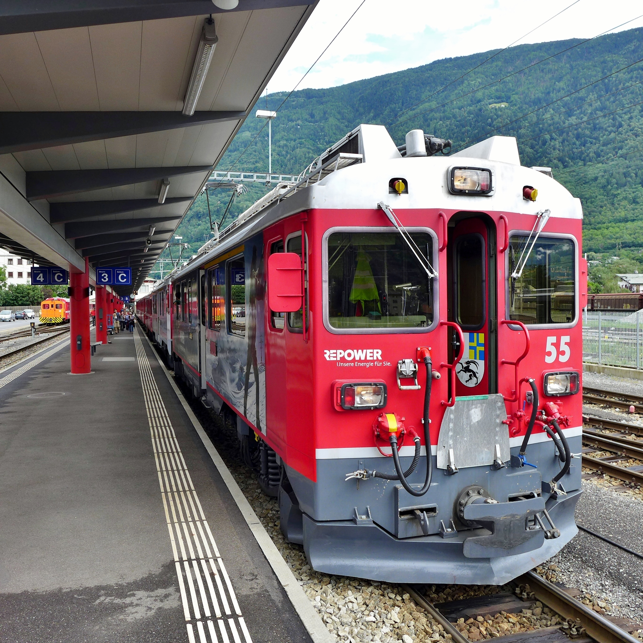 Rhaetian Railway class ABe 4/4 III multiple unit train no. 55 Diavolezza awaits departure from the Rhaetian Railway station in Tirano, Italy, with a Bernina railway service to St. Moritz, Switzerland.